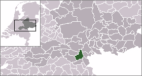 Location of Nijmegen